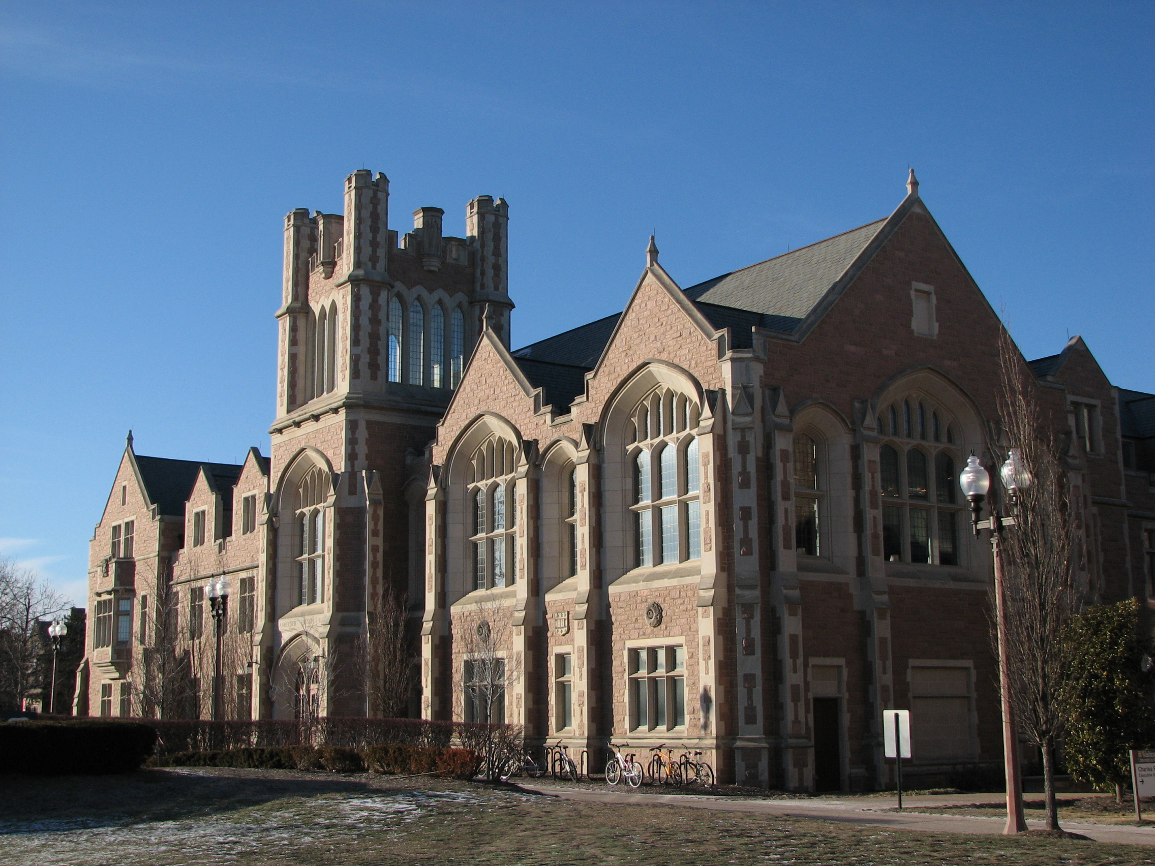 Anheuser-Bush Hall Taken on Feb. 3, 2007 By Minbaili 23:10, 3 February 2007 (UTC)